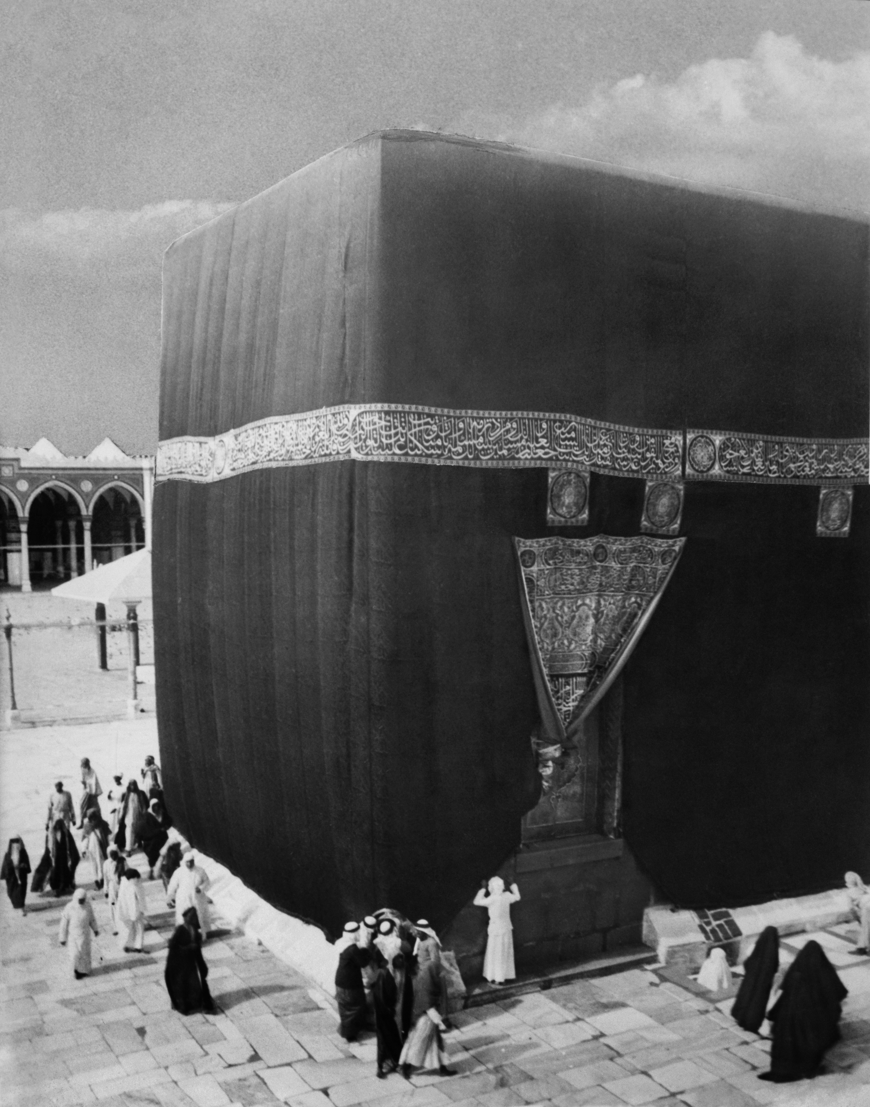 "Mecca, ca. 1910. [The Kaaba]" glass negative, dry plate; 5 x 7 in.